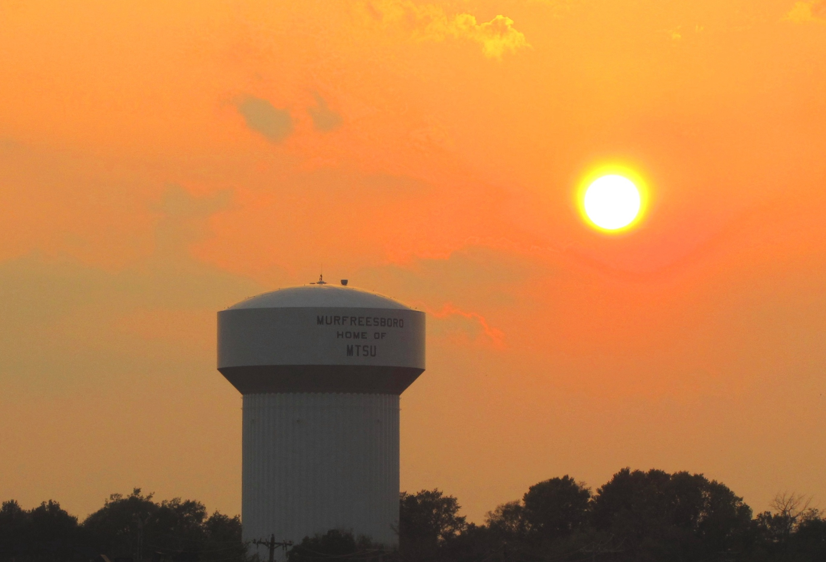 Sunset behind a water tower in Murfreesboro, Tennessee, USA.